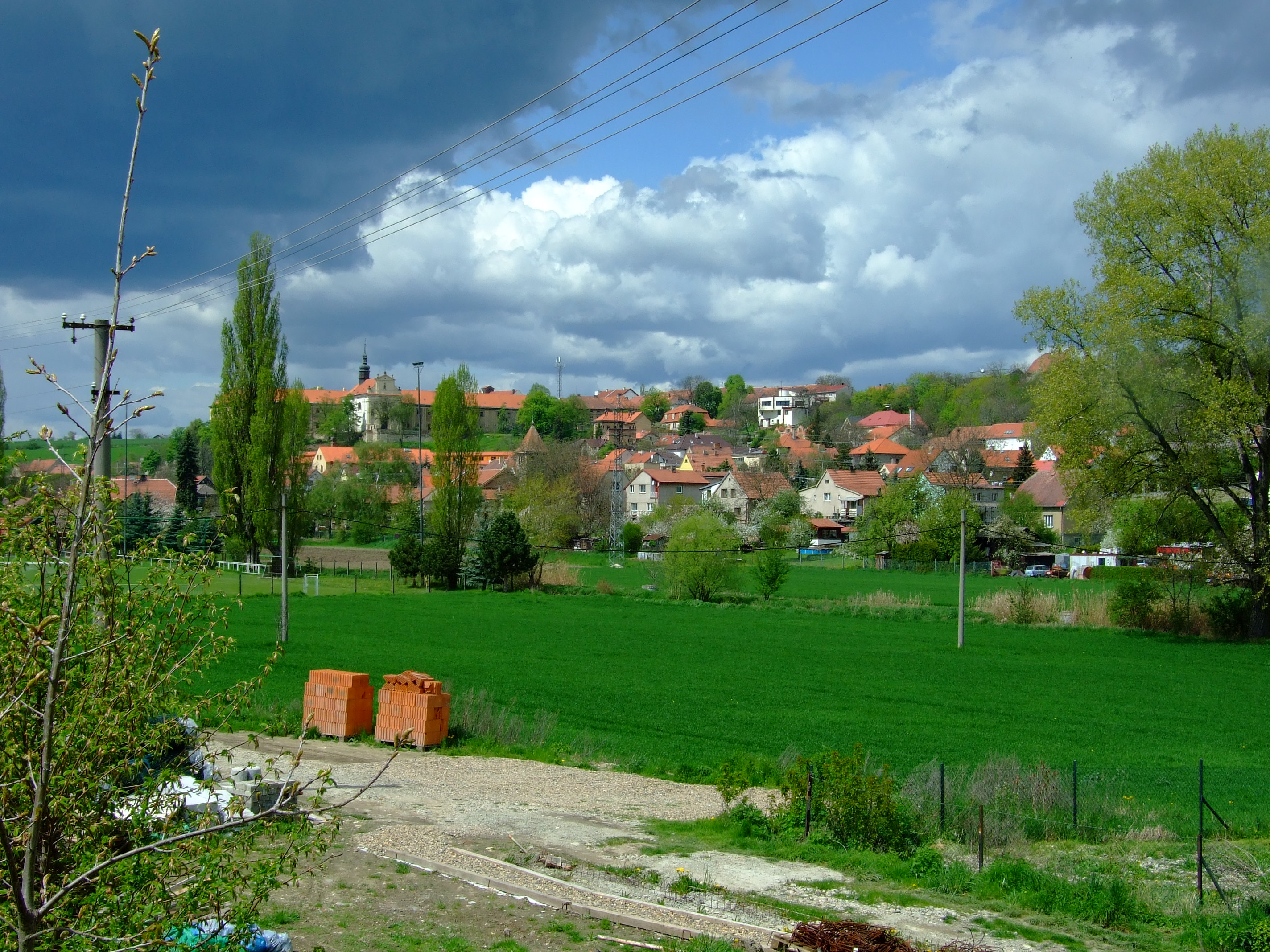 Tuchoměřice village near Prague, CZ